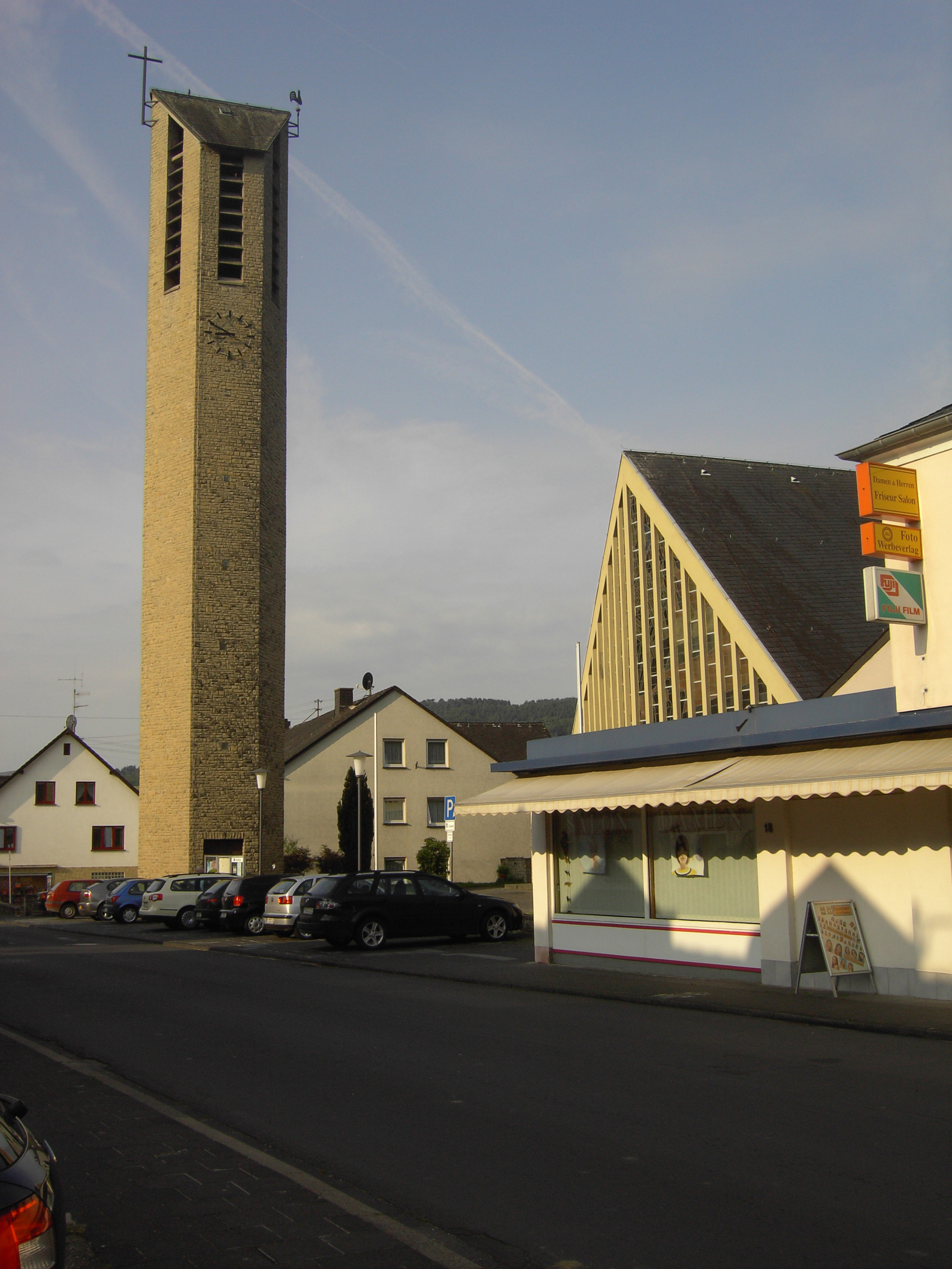 Irrel - Germany - New Church